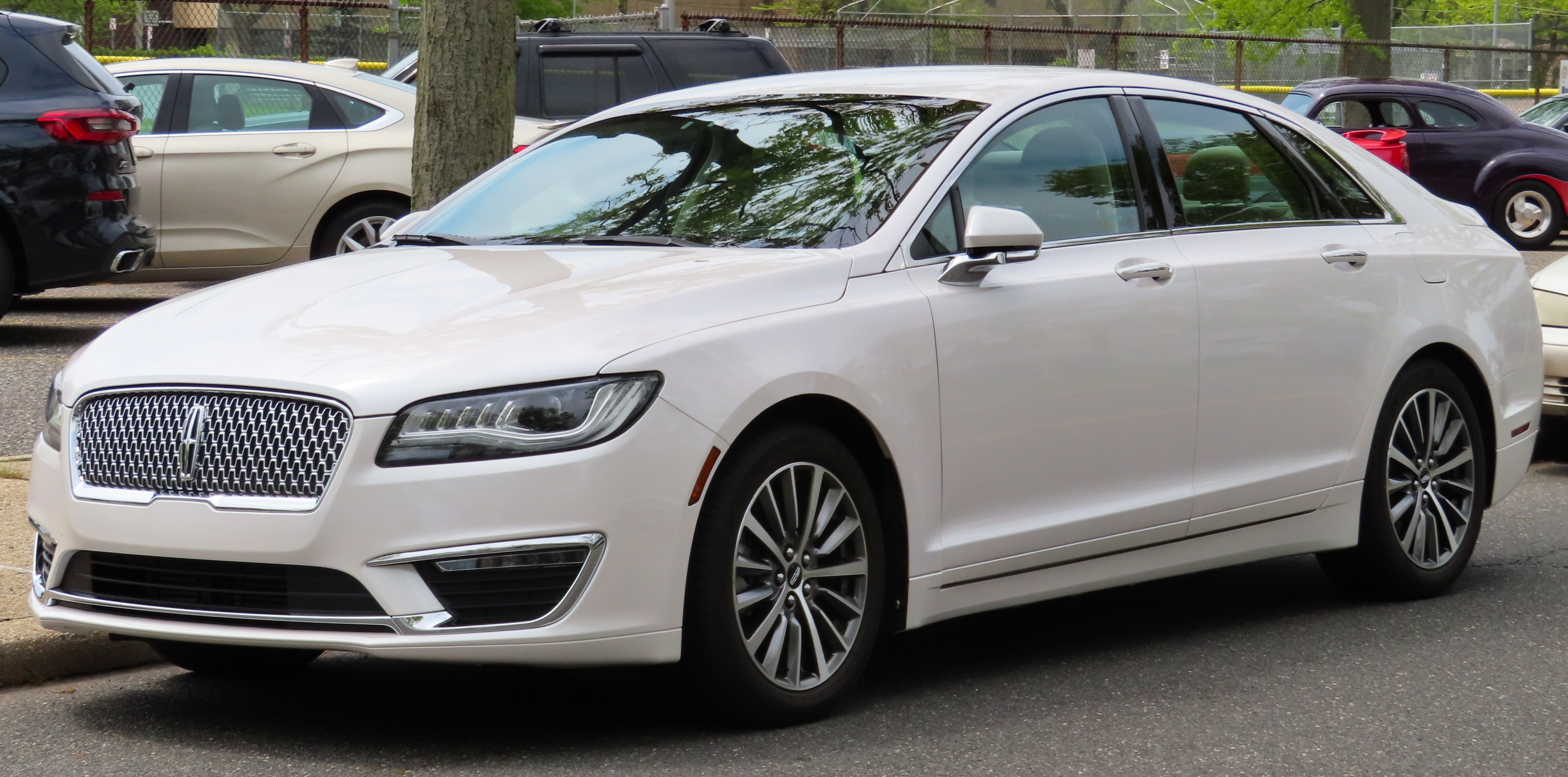 A 2017 Lincoln MKZ photographed at Merrick, New York, USA